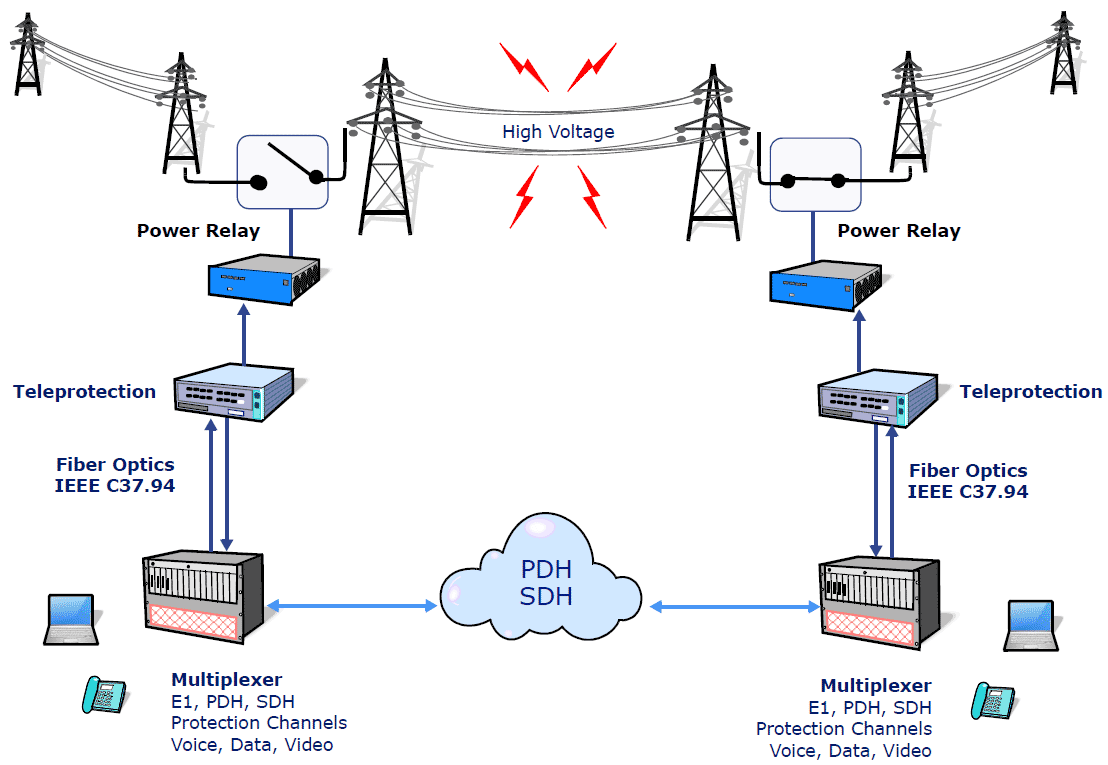 Scheme of the network architecture used by Power Utilities to protect high voltage line using the IEEE standard C37.94